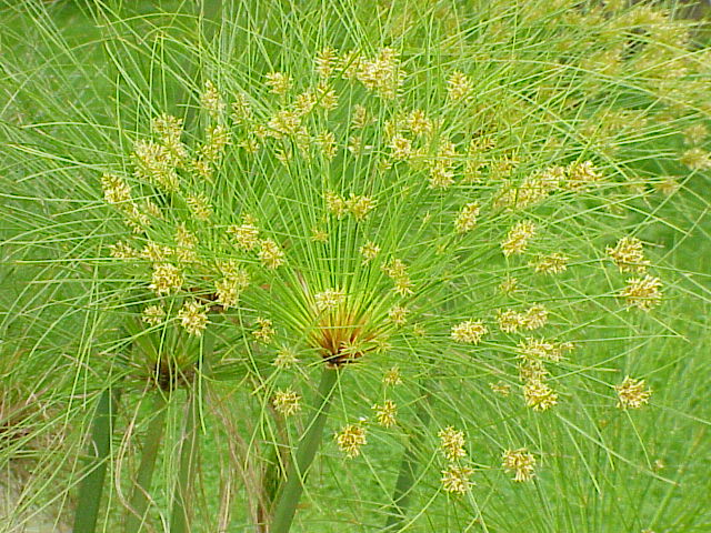 Species: Cyperus papyrus Family: Cyperaceae Image No. 2